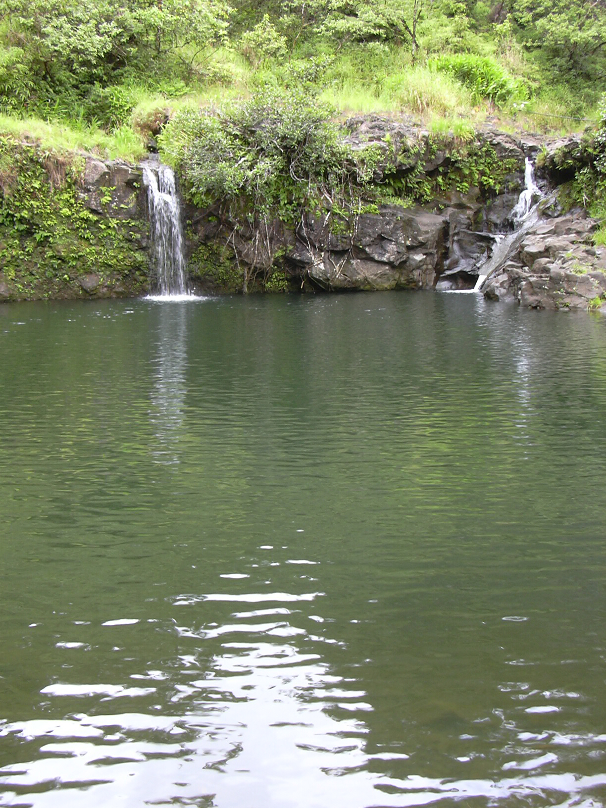 Ficus cf. platypoda (view stream pool). Location: Maui, Kopiliula